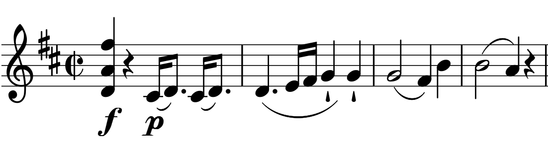 Joseph Haydn, Symphony No. 42, first movement, bar 1-4, first violin